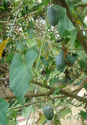 Dick Culbert: The Mouse Melon, Melothria scabra, is small and widespread, with a native range from Mexico to Columbia. Local names include Melon Raton, and Sandita. It tastes a bit like a sour cucumber.